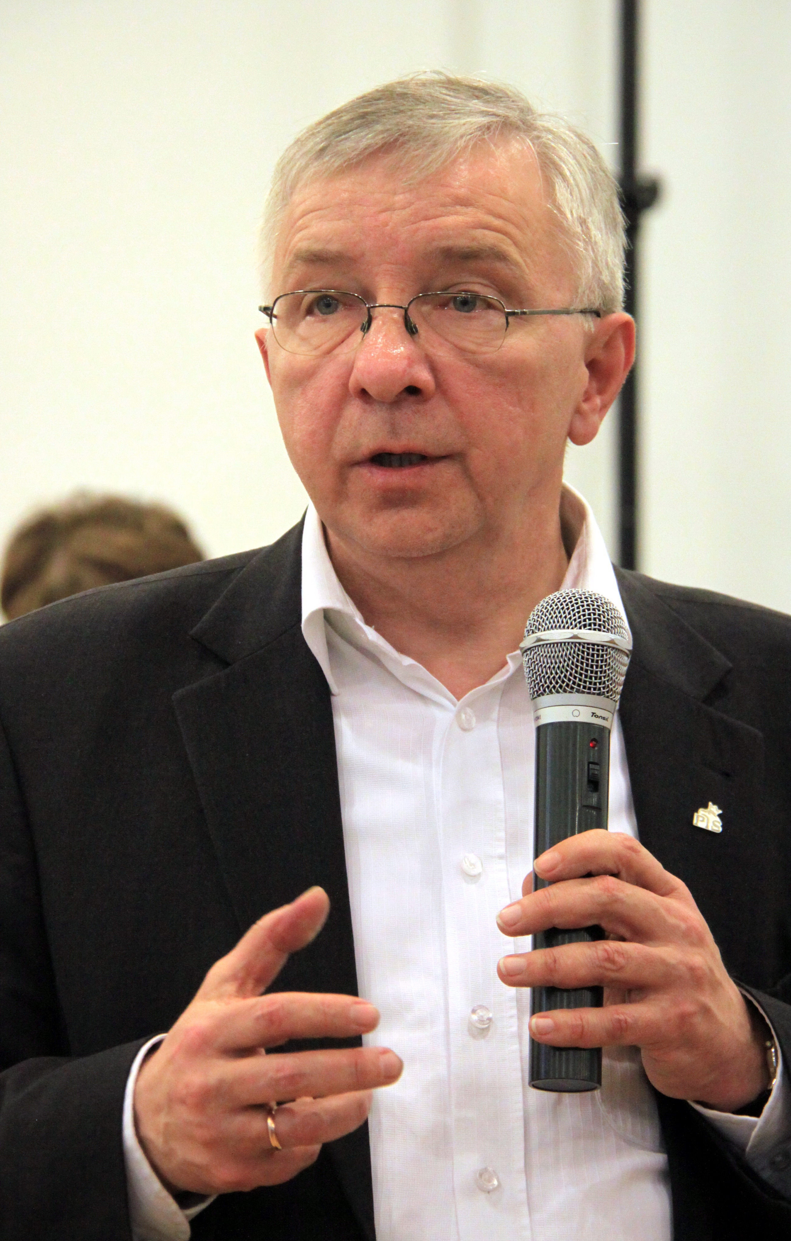 Krzysztof Lipiec - Polish politician, fourth term Senator, Member of Parliament, V, VI and VII of the term, teacher. Meeting "Law and Justice" Party with residents of Busko-Zdroj, 20 April 2012